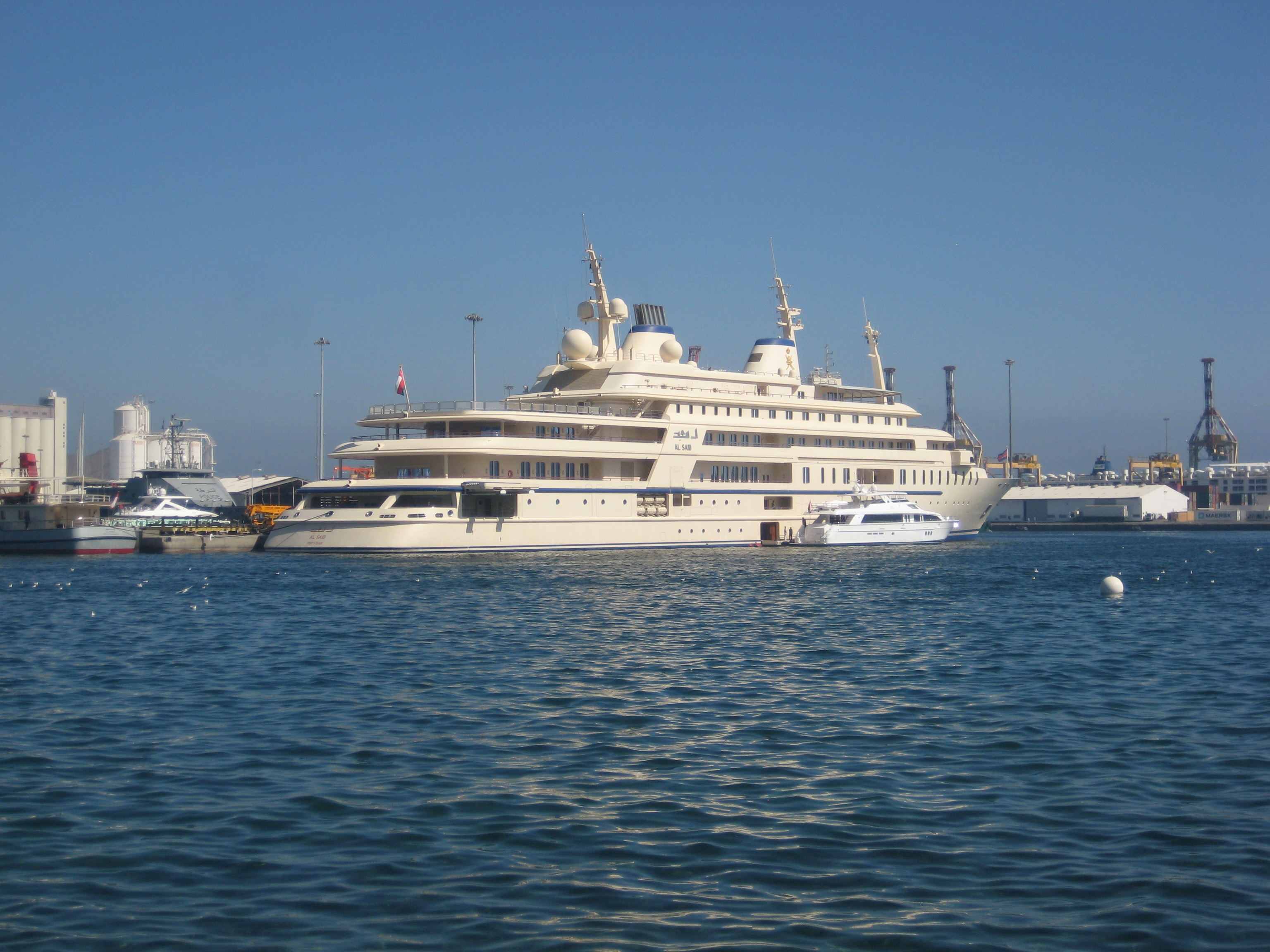 The Al Said, the world's third-largest yacht, owned by Sultan Qaboos of Oman. Docked at Muttrah Harbor, Muscat.